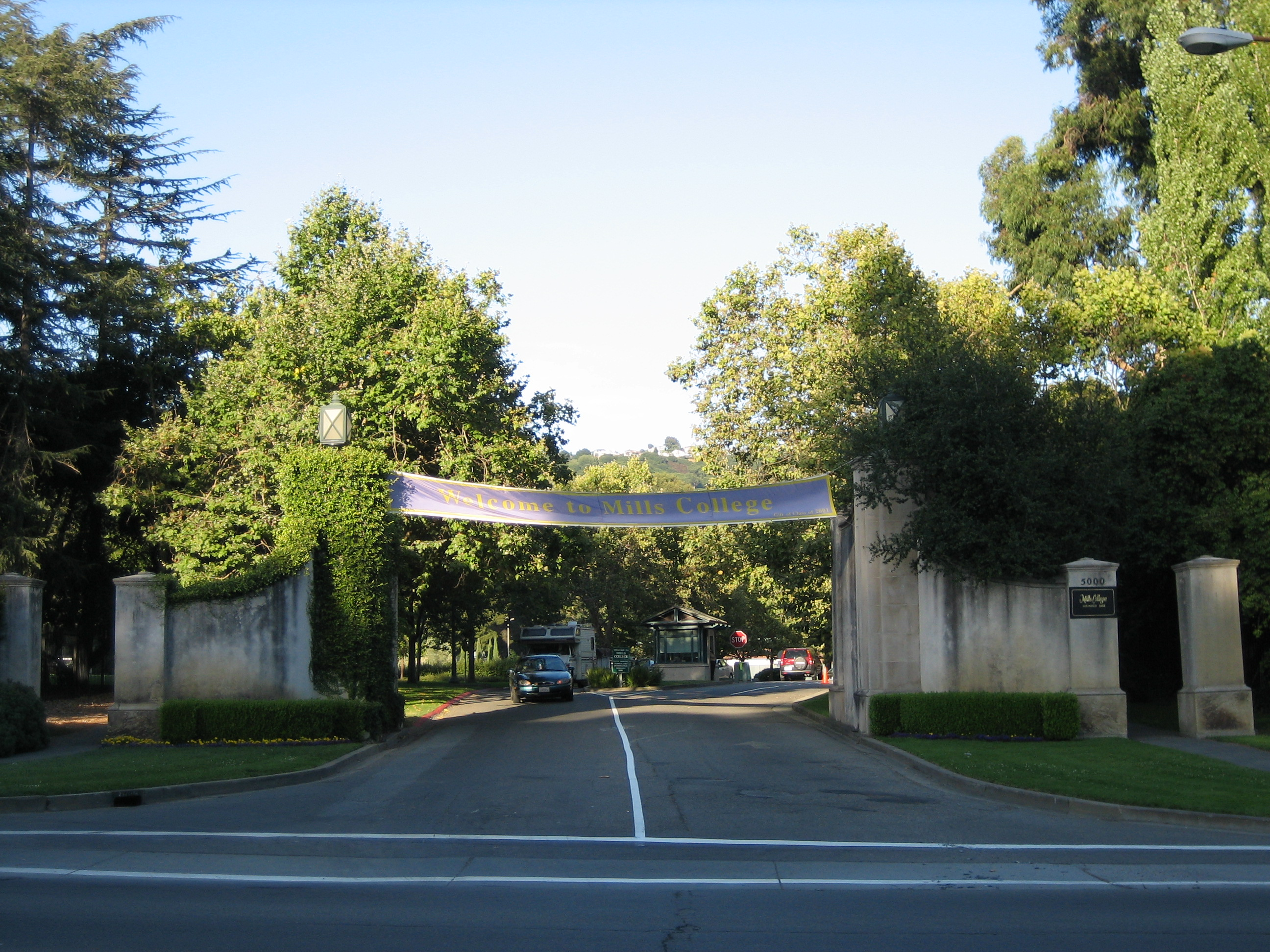 Uploading image of Mills College.